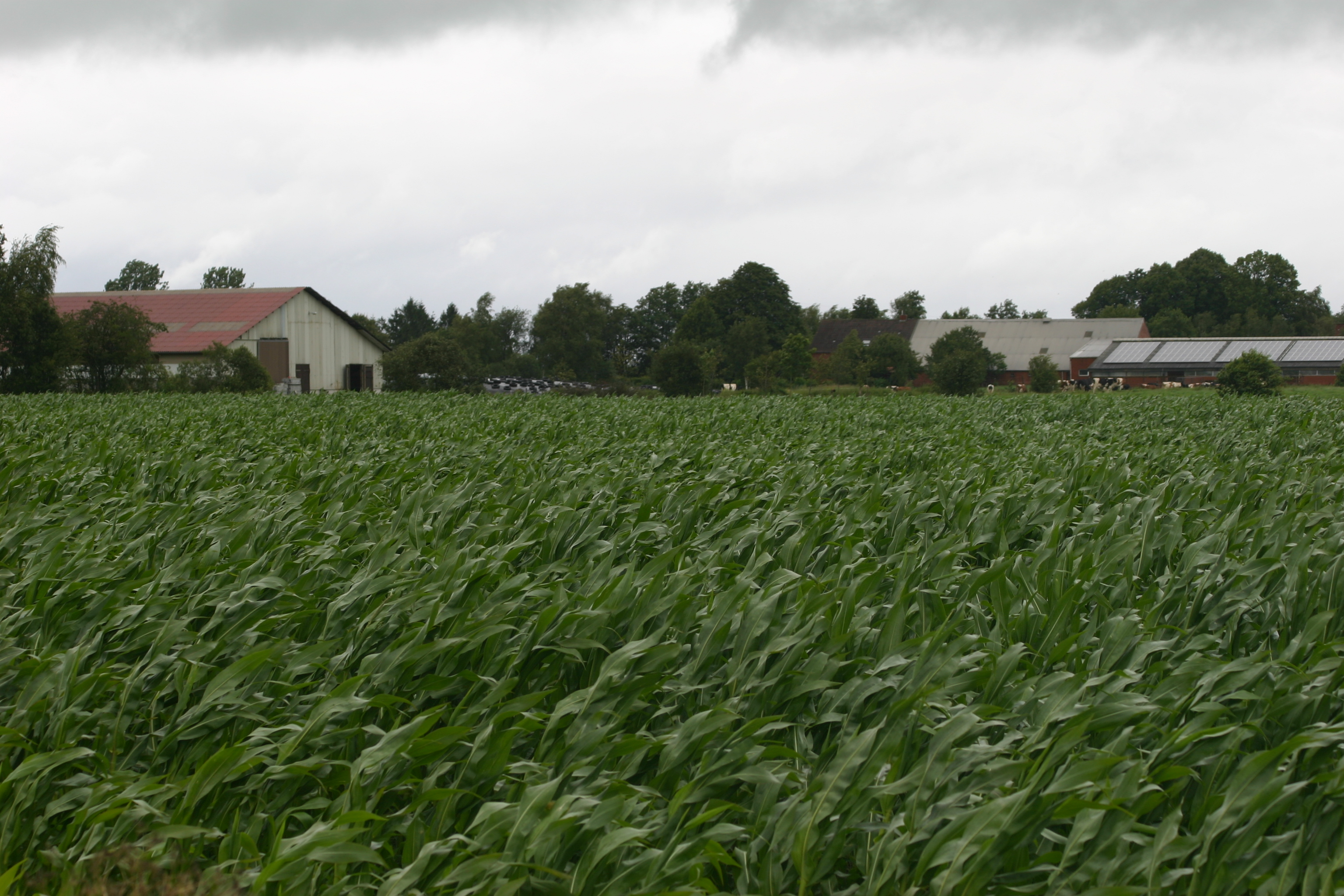 Maize (corn) crops in front of farmhouses in the community of Moormerland, district of Leer, East Frisia, Germany